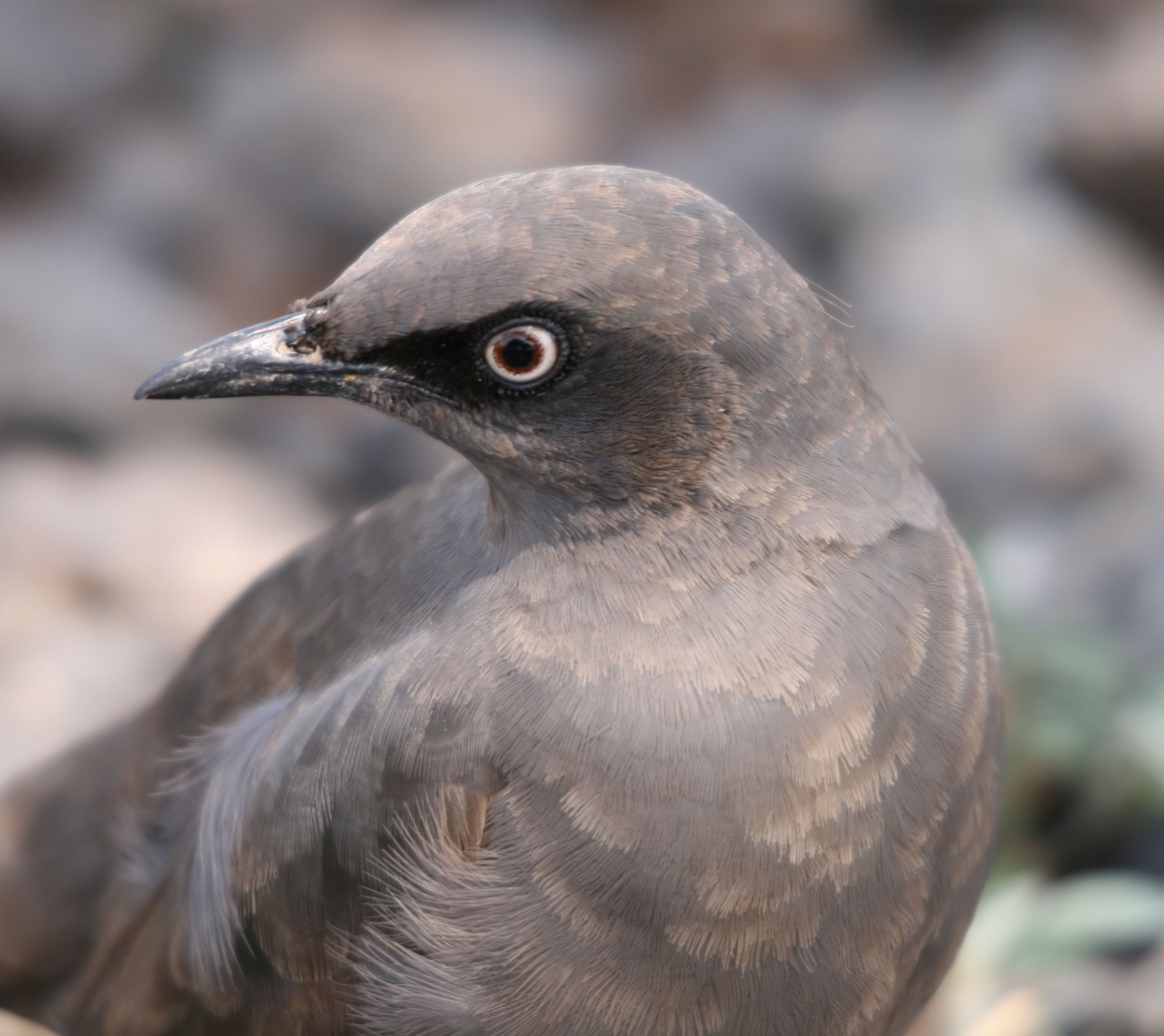 Ashy starling´s (Cosmopsarus unicolor) head, picture taken at Tarangire National Park, Tanzania